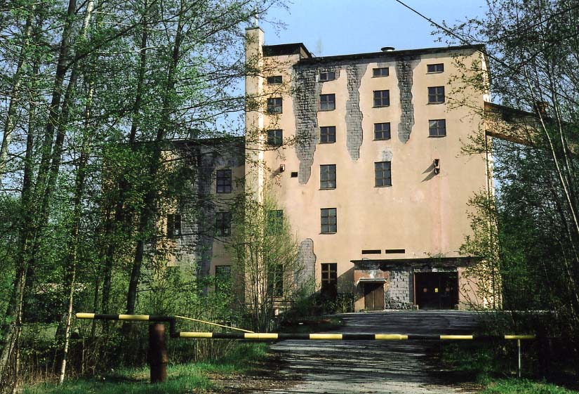 Striberg, gruvan 2003. Foto: Cucumber